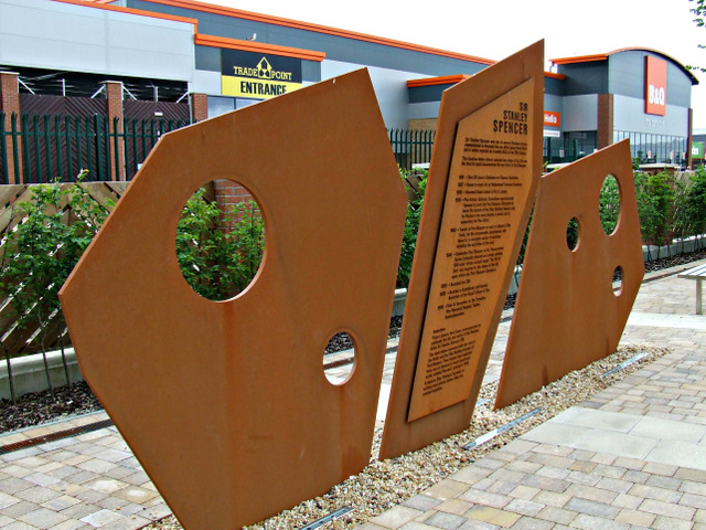 A sculpture commemorating the years that Stanley Spencer spent as a war artist in the Port Glasgow shipyards which stood here, The site is now a retail park.